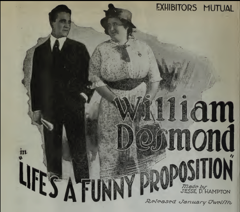 ad for Life's a Funny Proposition (1919) with William Desmond and an unidentified actress, film directed by Thomas N. Heffron.